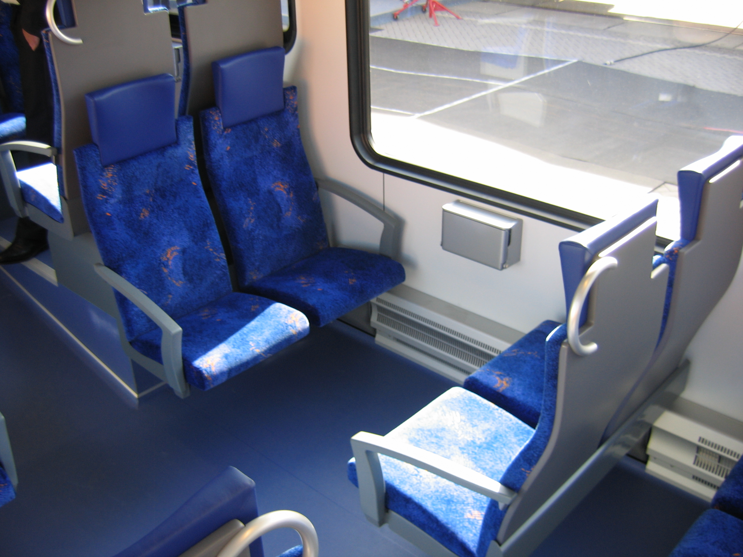 4 seater of Stadler FLIRT Innotrans 2006, Berlin 20 sep 2006